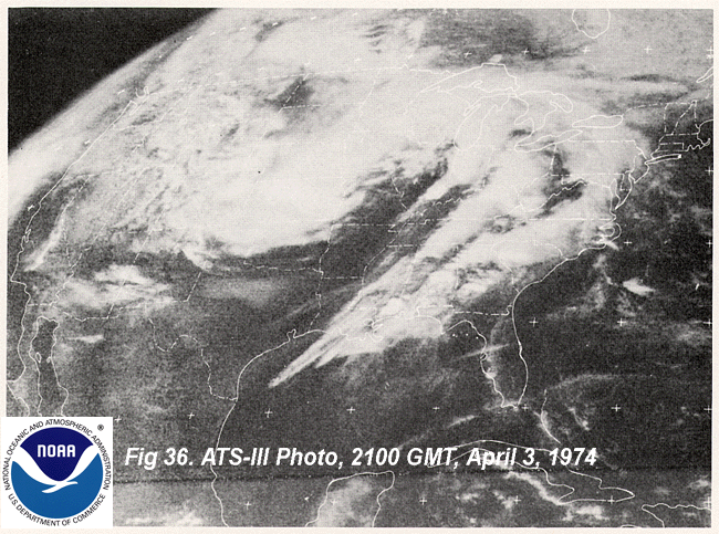 21:00 GMT Satellite cloud image of the storm system causing the Super Outbreak on the 3rd of April, 1974. There is three well organized lines of thunderstorms visible from the Great Lakes to the Gulf of Mexico.